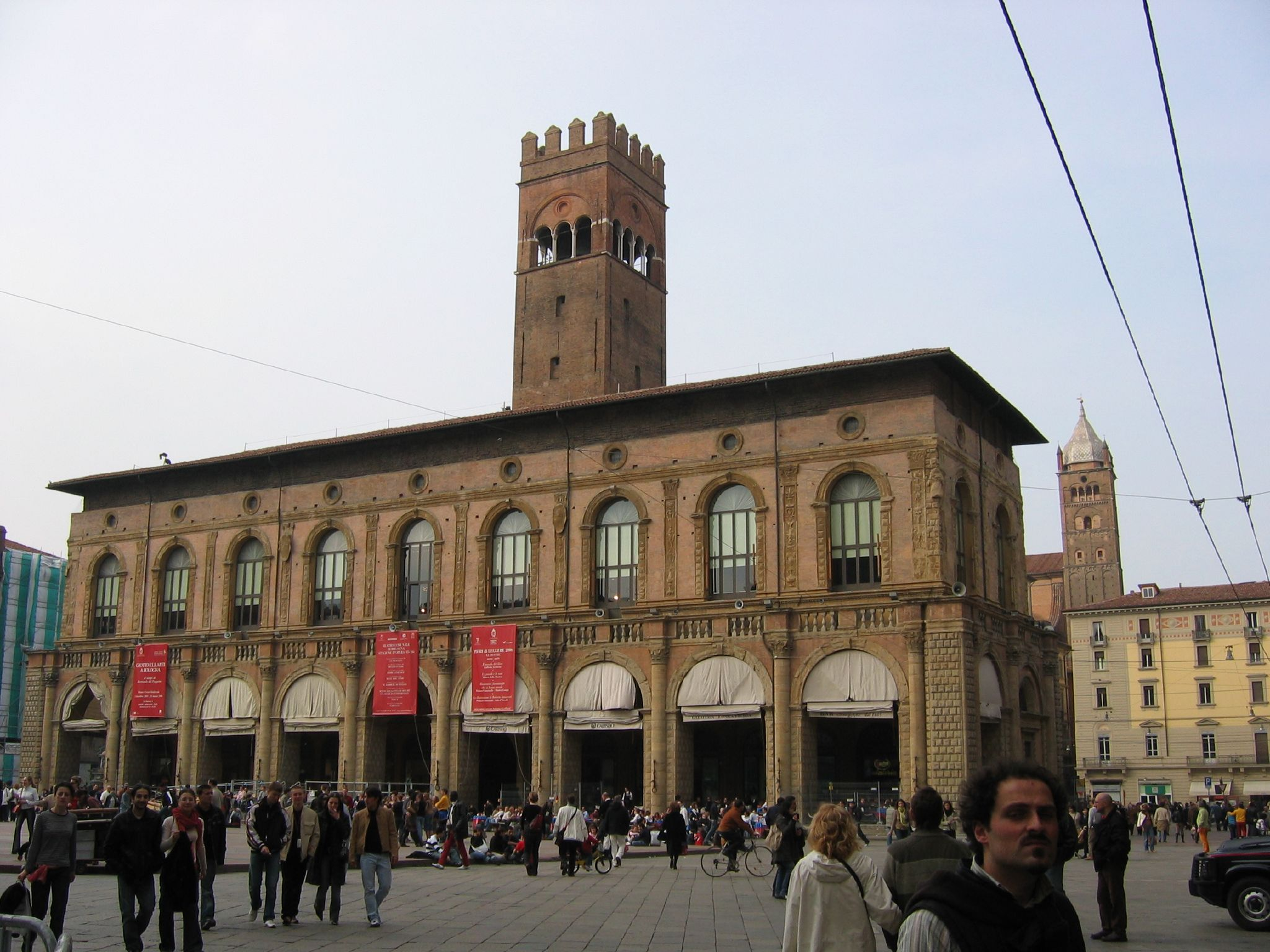 The facade of Palazzo del Podestà palace in Piazza Maggiore square in Bologna, Italy. It was projected by Aristotile Fioravanti in 1453.